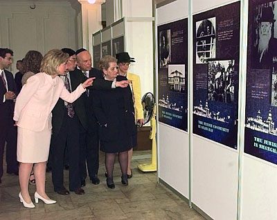 First Lady Hillary Clinton and Secretary of State Madeleine Albright tour the Ohel Rachel Synagogue, Shanghai, China. Photo by Sharon Farmer. 7-1-98